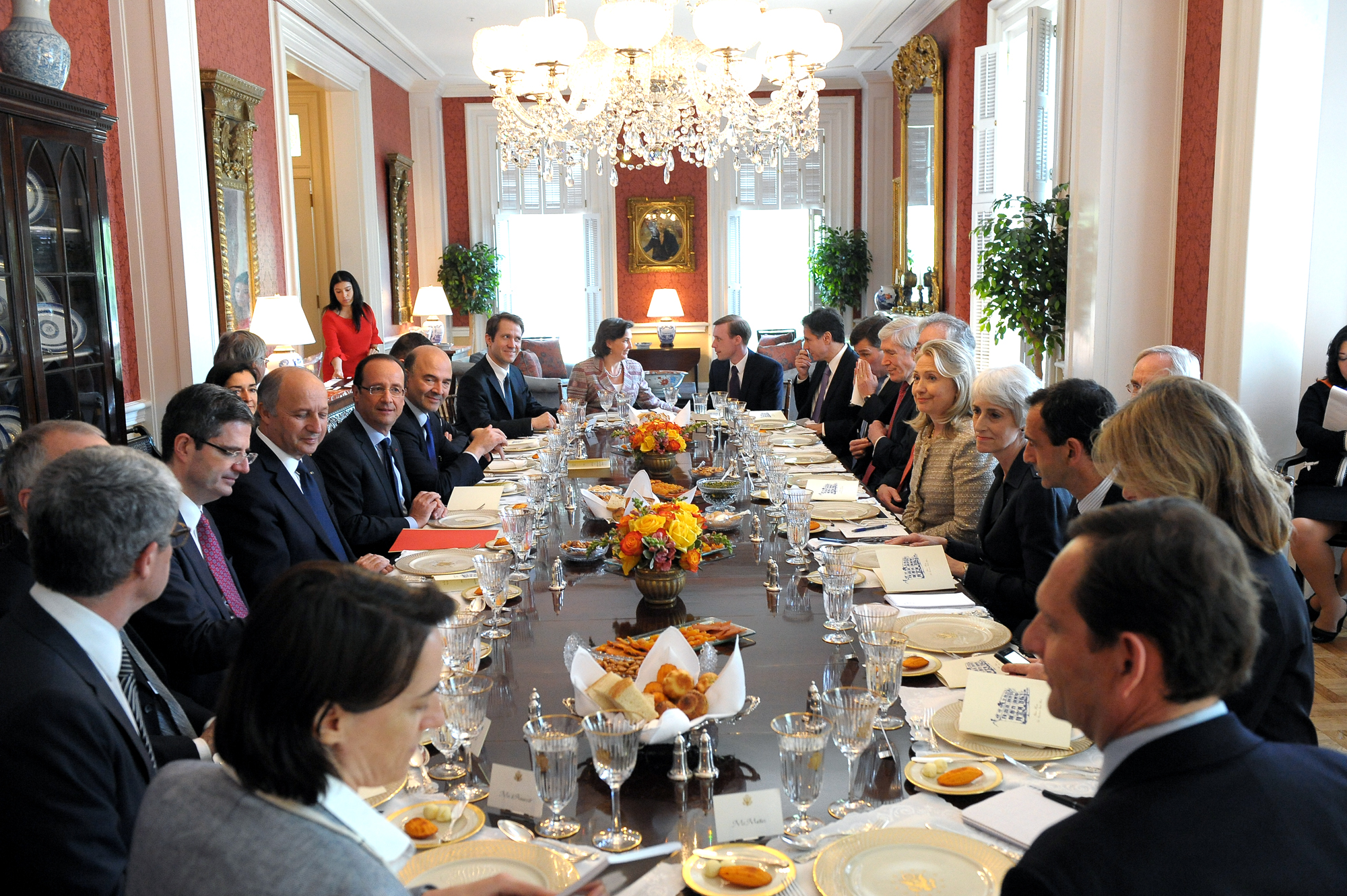 U.S. Secretary of State Hillary Rodham Clinton hosts a working lunch for French President Francois Hollande at the Blair House in Washington, D.C. on May 18, 2012. [State Department photo/ Public Domain]